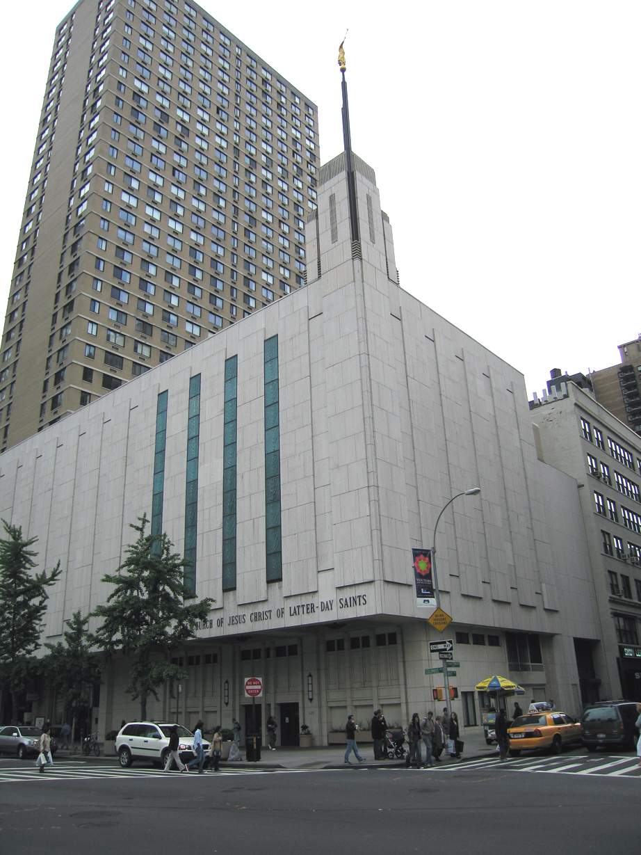 The Manhattan New York Temple of The Church of Jesus Christ of Latter-day Saints.